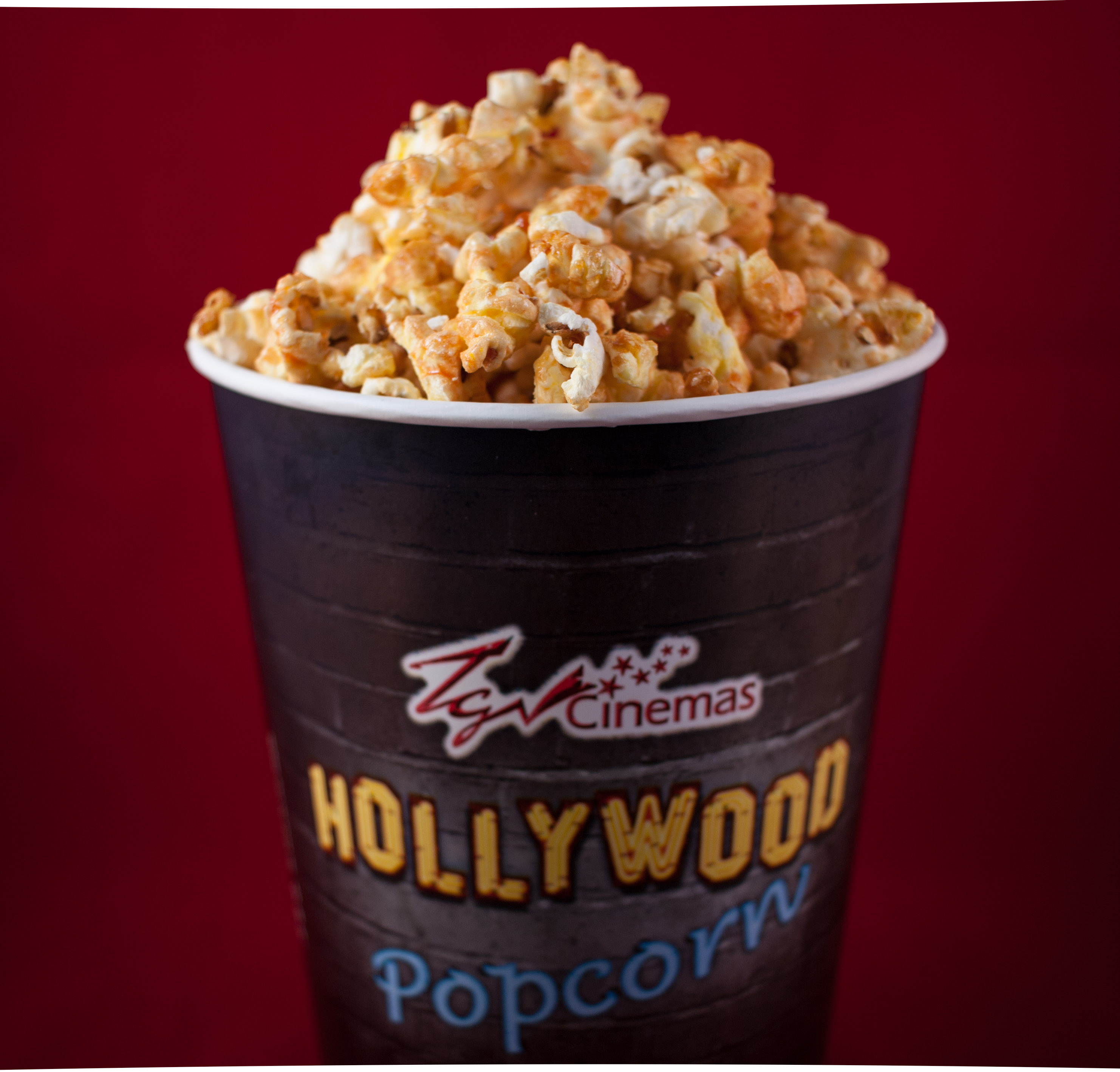 Cinema popcorn bucket